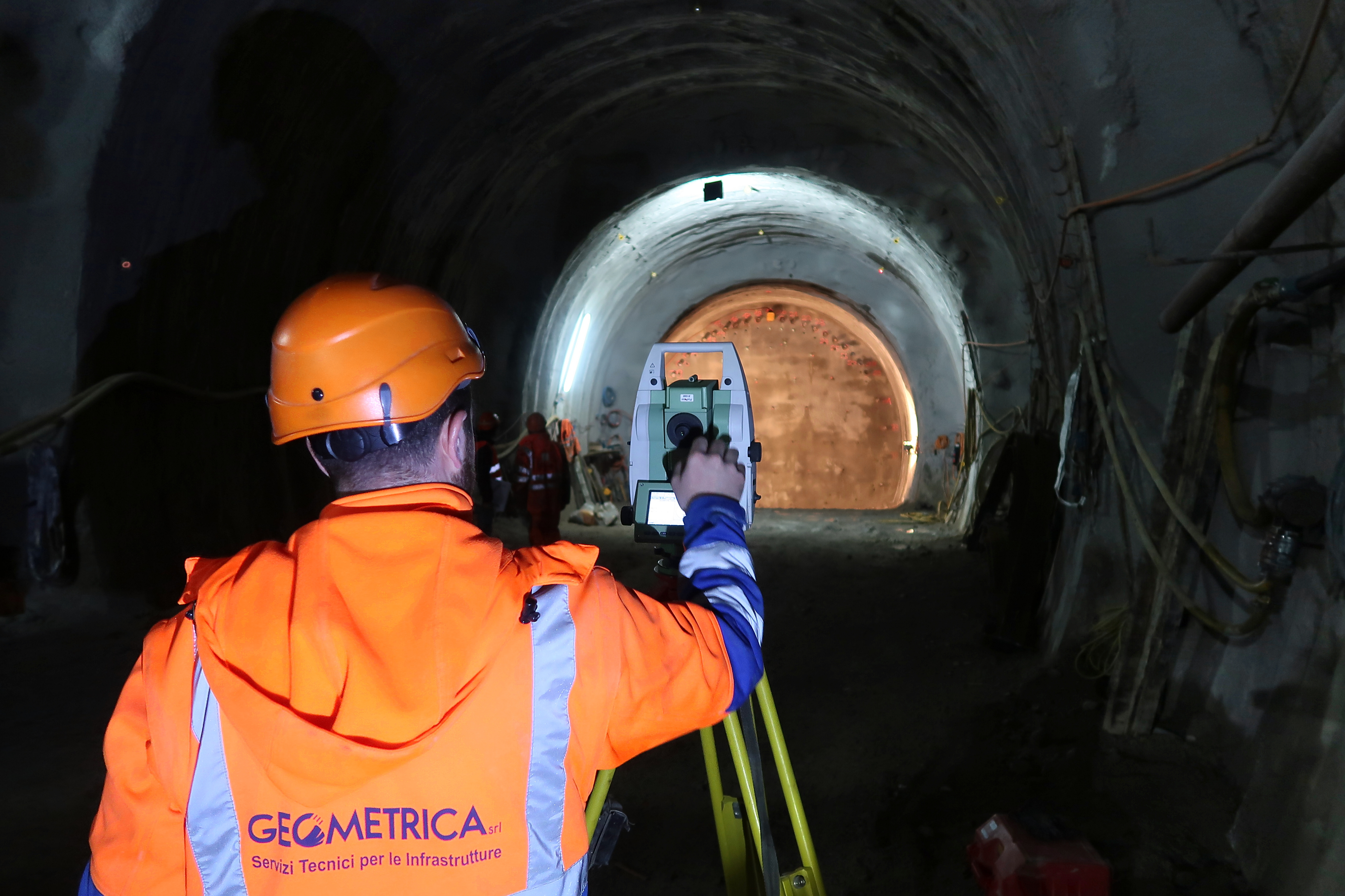 Control of surveying points. The target point at the top right is glowing red. St Gallen, Switzerland, Feb 22, 2017. (9/16)